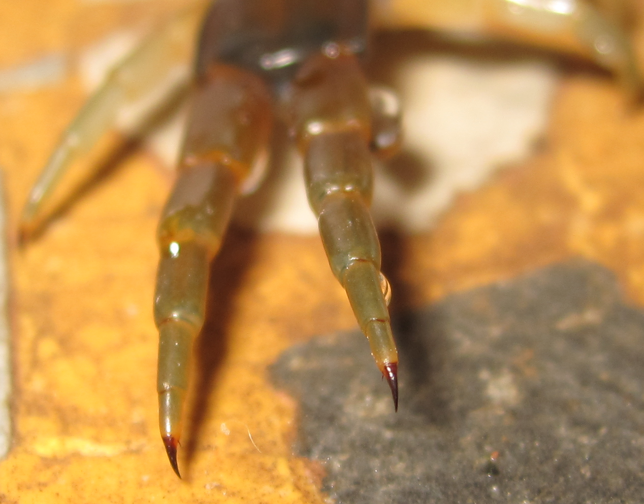 Centipede rear pair of legs (in Greece)